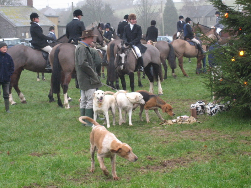 The Mendip Farmer's Hunt meeting on Boxing Day on the green in Priddy